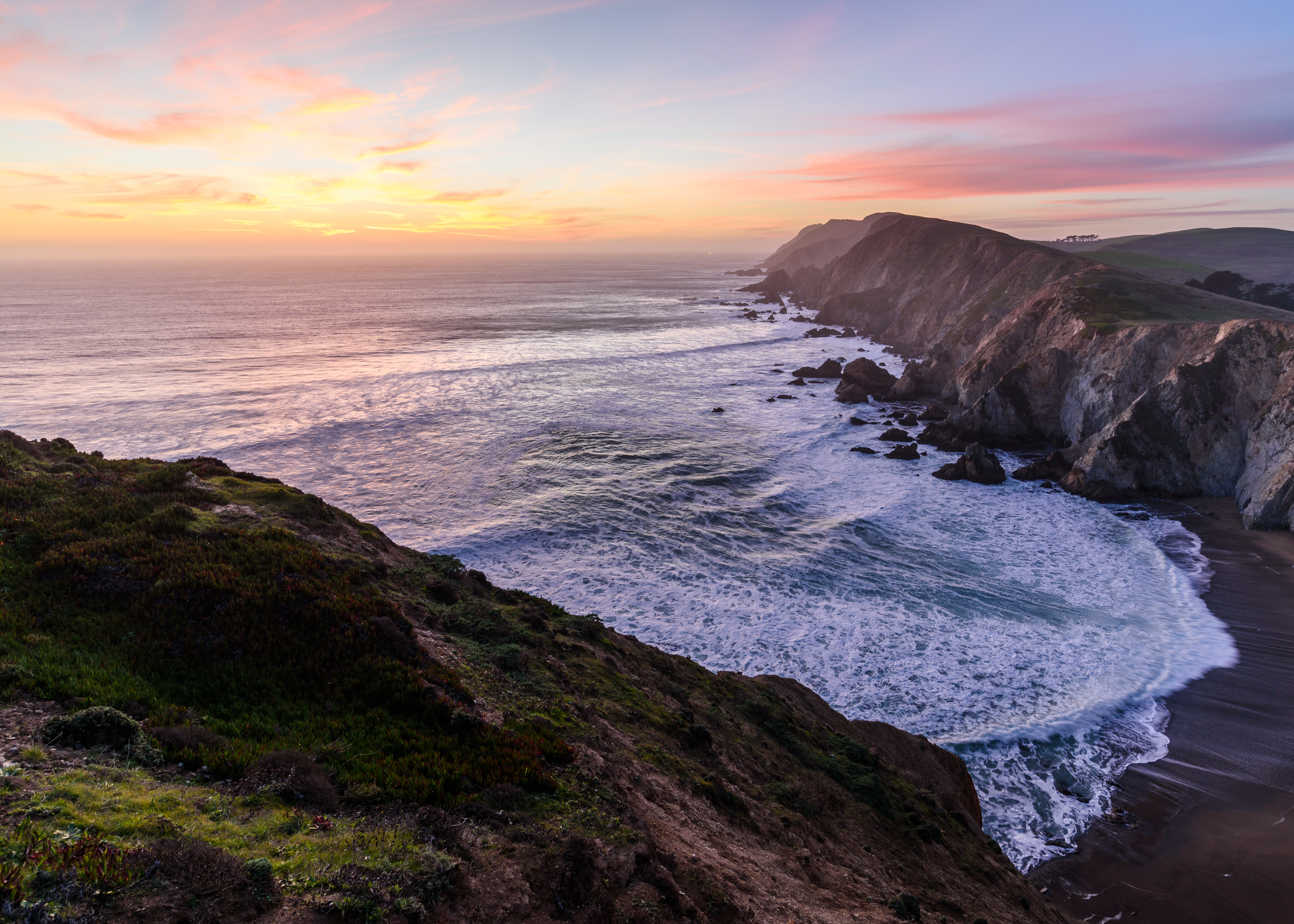 Point Reyes headlands, Chimney Rock Trail, Point Reyes National Seashore, California.